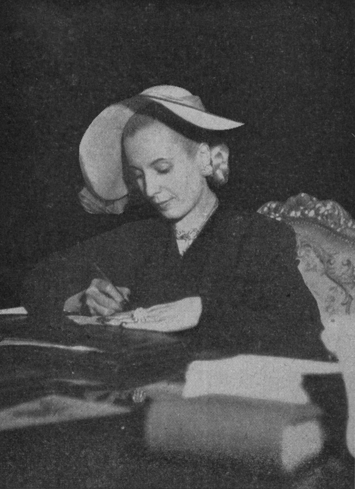 Evita signing a document